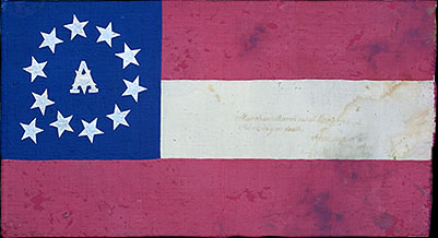 A circle of ten stars appears in this flag, elaborated by an "A" superimposed over the central and eleventh star. Presumably, the star outside the circle represents Missouri, admitted in August, 1861 by the Provisional Congress. The flag was presented to the unit raised in Jacksonport by William Patterson in the summer of 1861. Ladies of the town distinguished the flag with gold embroidered chain stitch, "March on! March on! All hearts resolved on victory or death." This flag was most likely retired when flags in the Hardee pattern were issued to the Army of Central Kentucky in early 1862. First Confederate National Flag pattern variation. Cotton, red wool, red silk fringe and gold embroidery, 21" x 39". Currently held at Old State House Museum, Little Rock Arkansas.